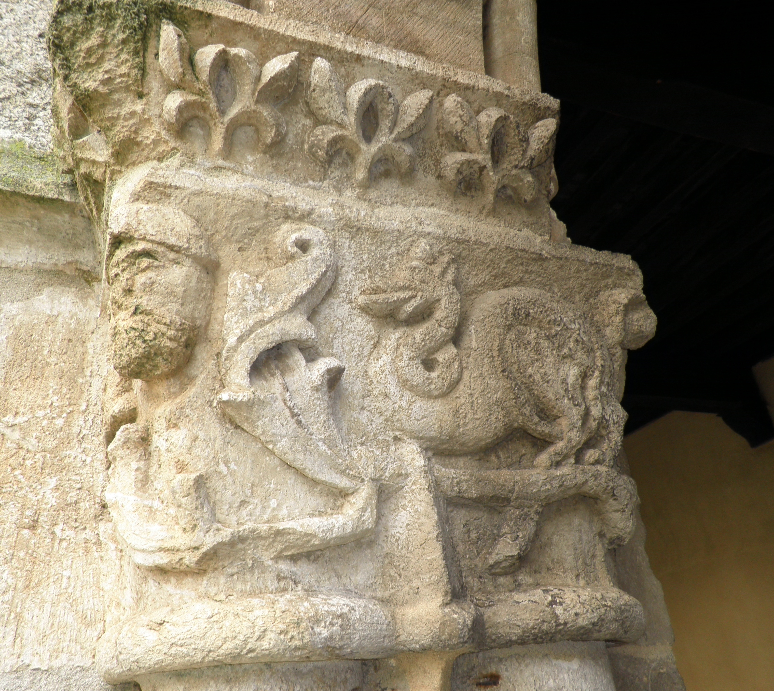 8th capital in southern corridor of the church of Santa María la Real de Nieva, Segovia province, Spain. Basilisk on a branch.